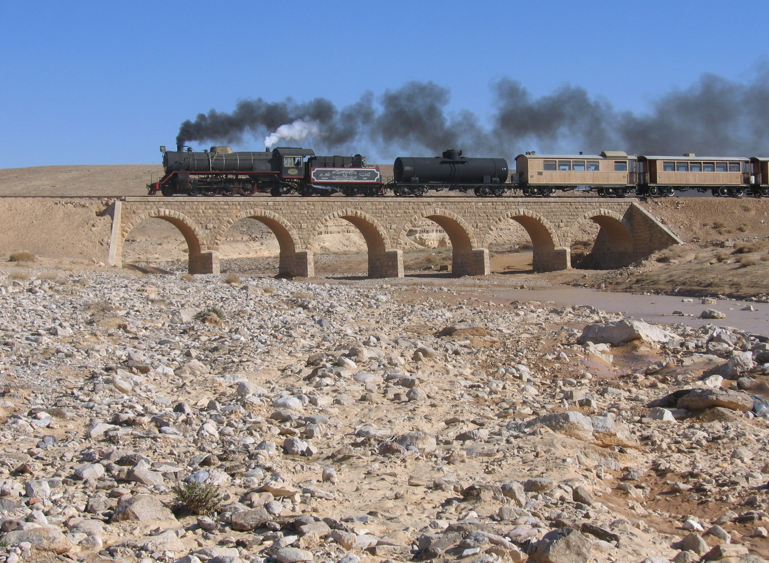 bridge of the Hejaz Railway over a wadi, to the south of Amman, own work, february 2007